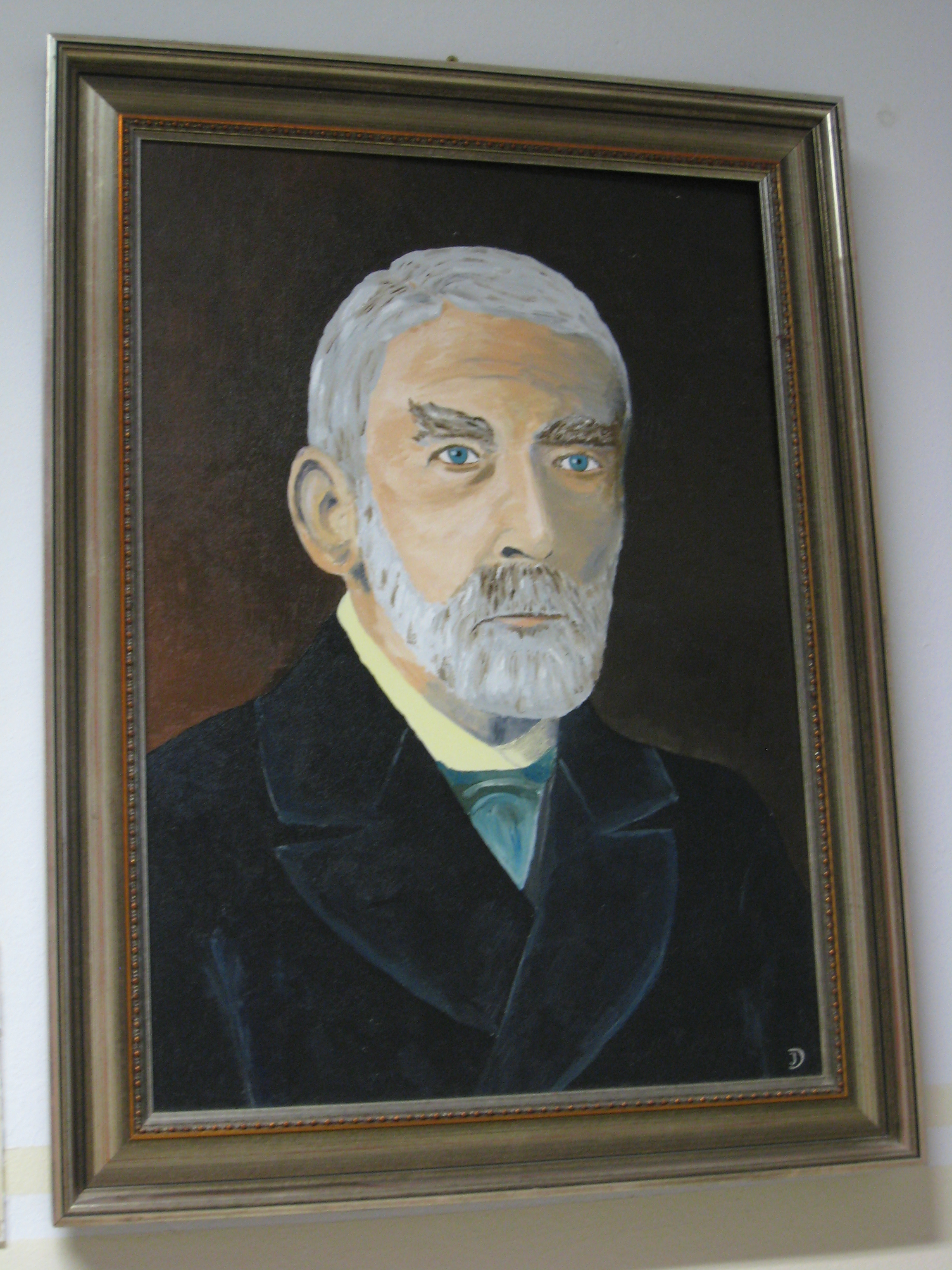 Emil Petri, theologian